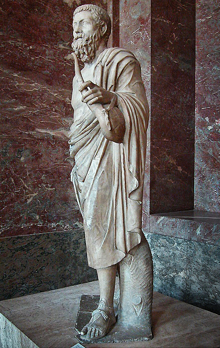 Lyre player. Marble, Roman copy from the 2nd century CE after a Greek bronze original of the 5th century BC.